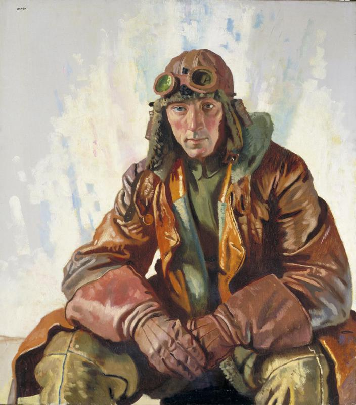 The Nco Pilot, Rfc. (flight Sergeant W G Bennett) image: A portrait of Bennett in leather flying gear. He sits in a relaxed pose, his arms resting on his knees.